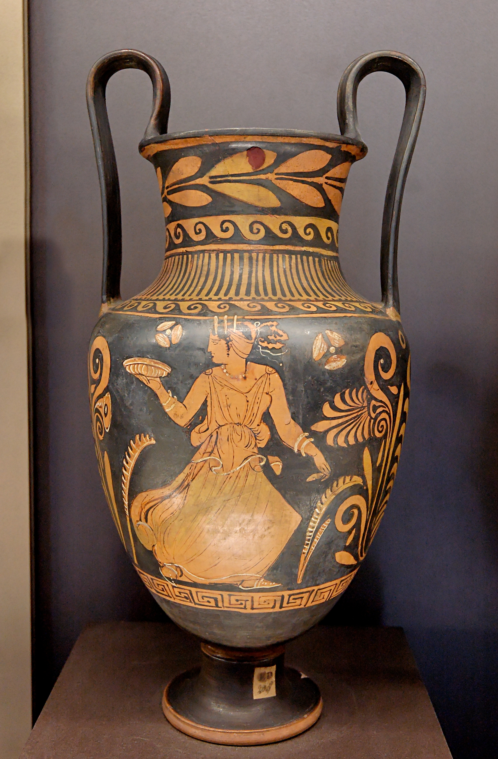 Woman holding a phiale. Side A from a Lucanian red-figure nestoris, ca. 360–350 BC.